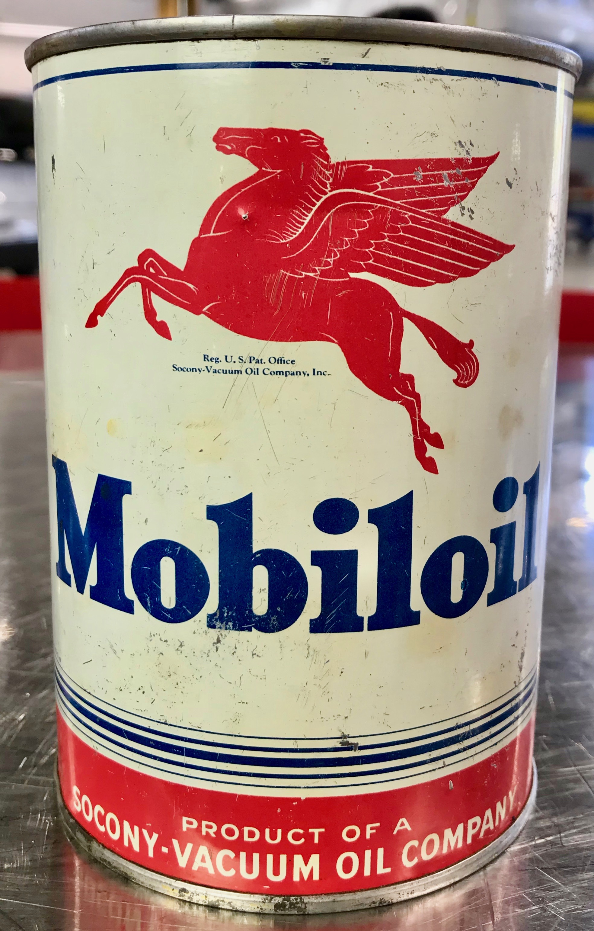 1942 Mobiloil Oil was used in early automatic transmissions and fluid couplings